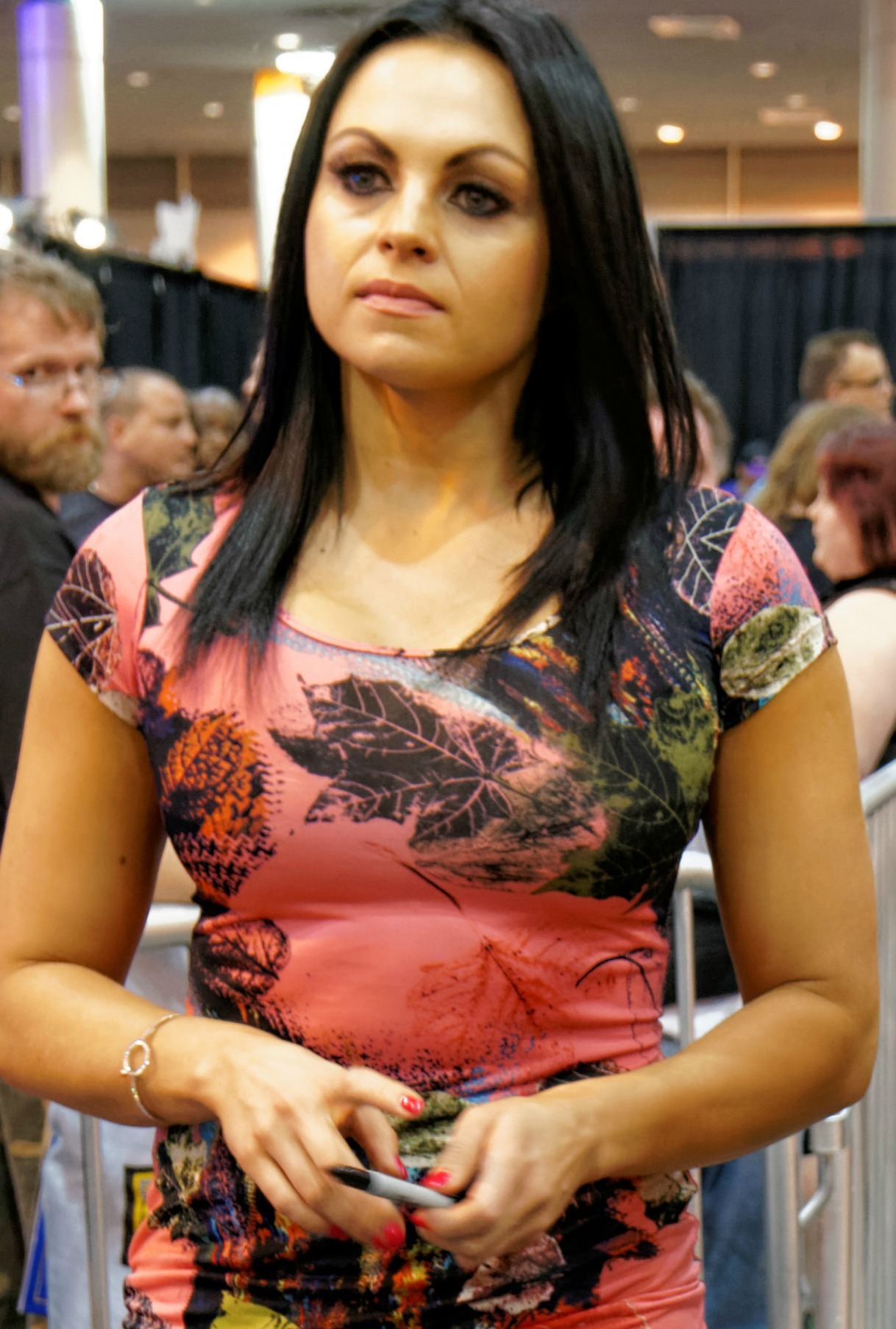 Aksana during the 2014 WrestleMania axxess.